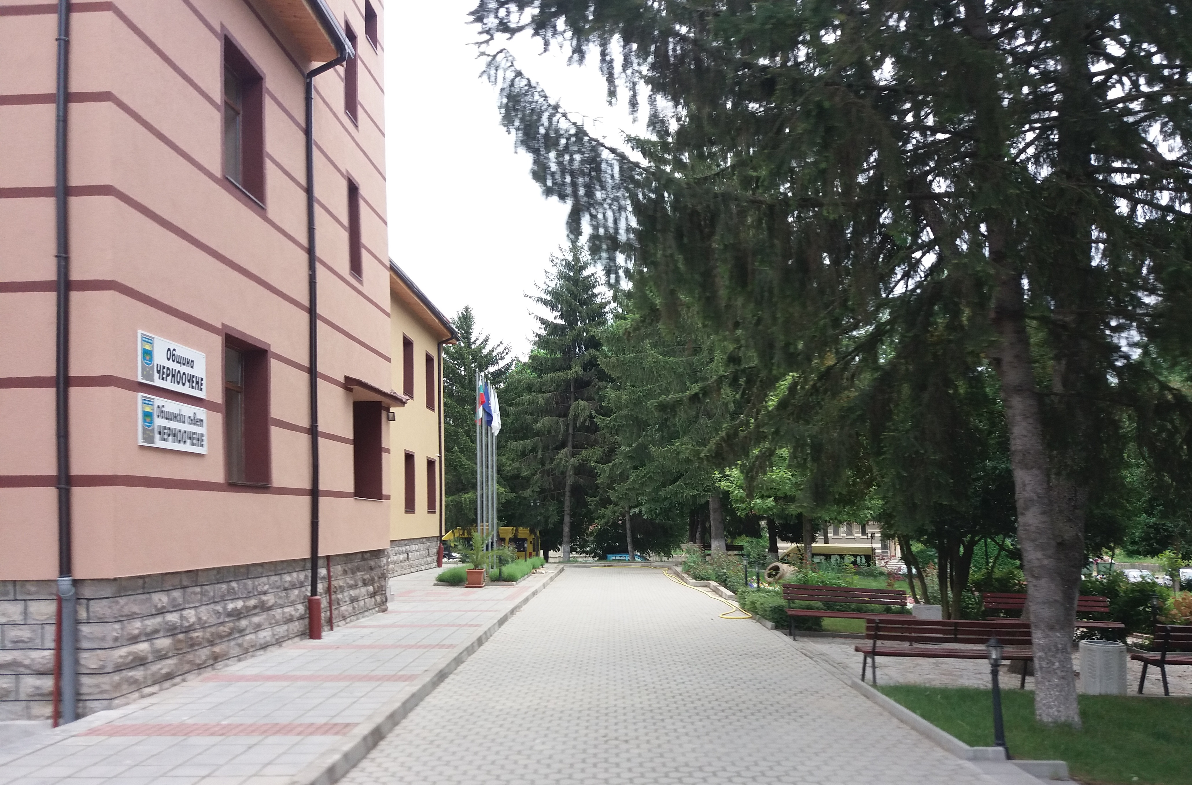 Chernoochene Municipality Building